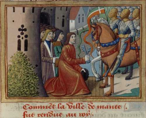 The surrender of Mantes in 1449 by the English soldiers to Jean de Dunois - Martial d'Auvergne, Vigiles de Charles VII, 1484